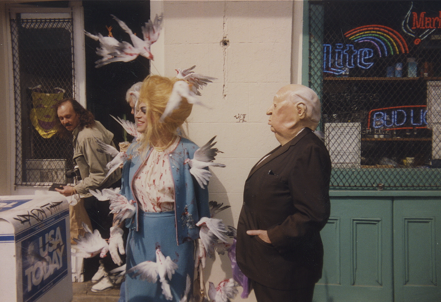 Tippy, Alfred, and feathered friends in the French Quarter, Mardi Gras 1989